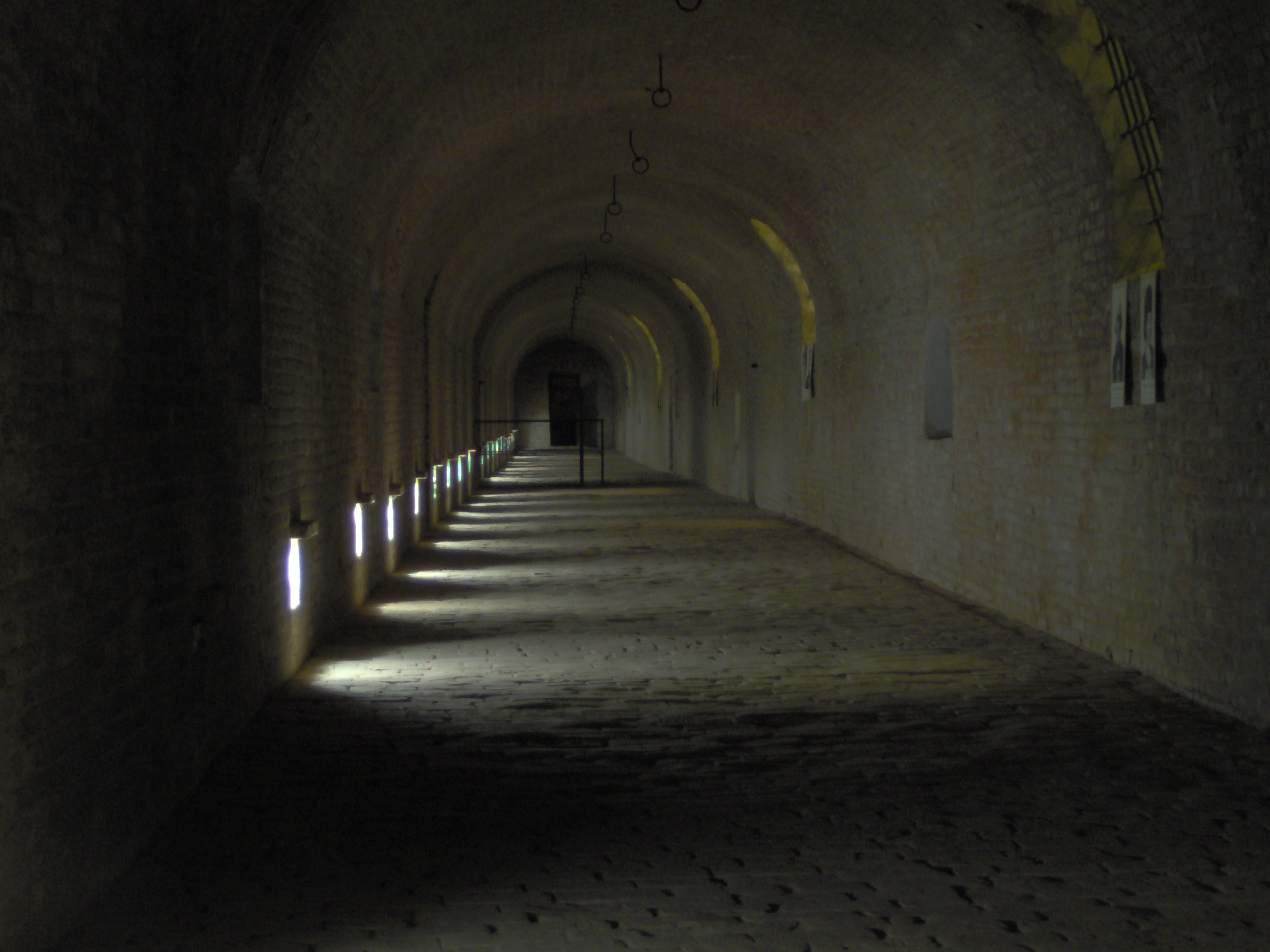 Casemates, Špilberk Castle, Brno, Czech Republic